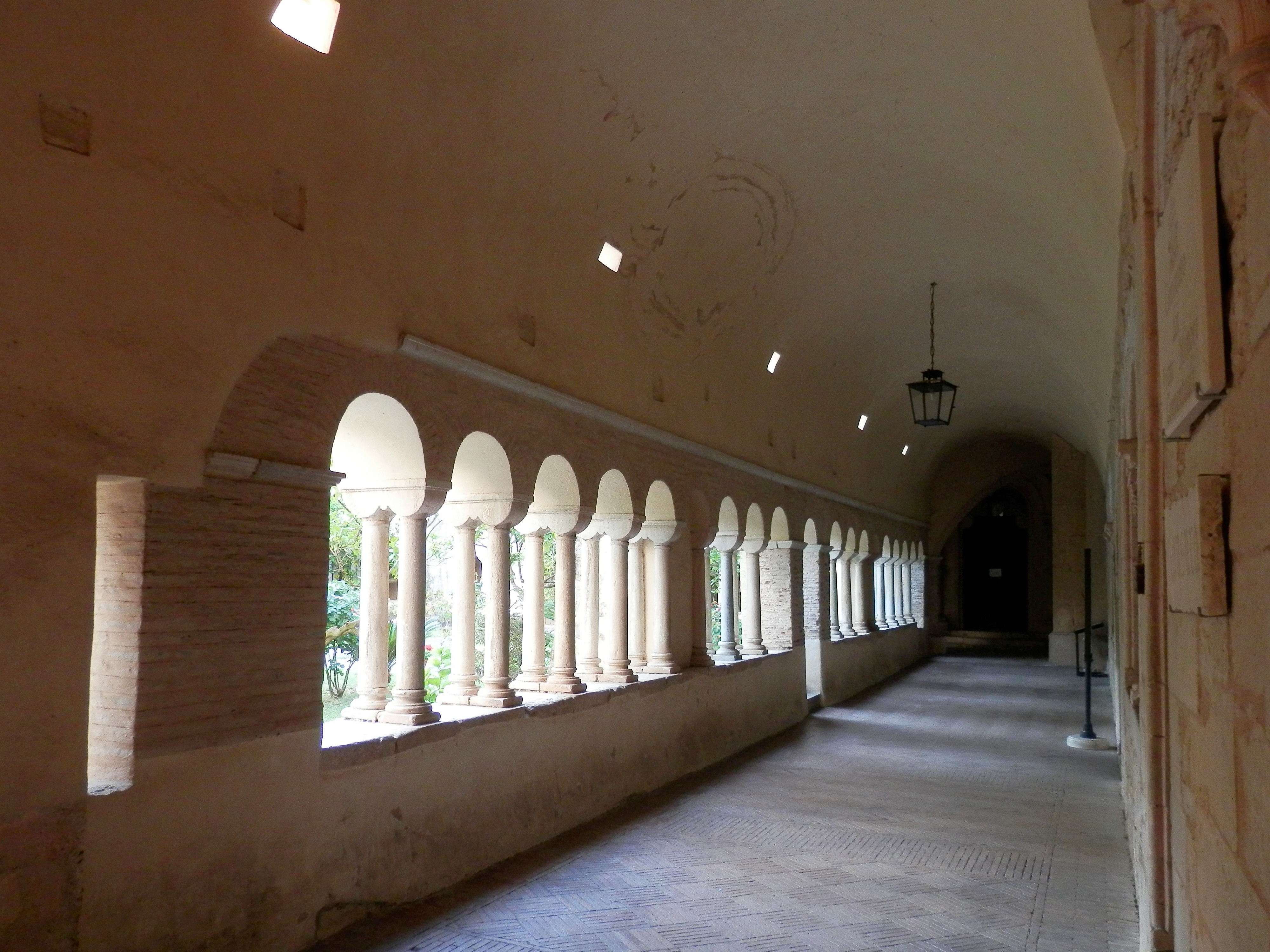 The Fossanova Abbey in Priverno, Province of Latina, Italy